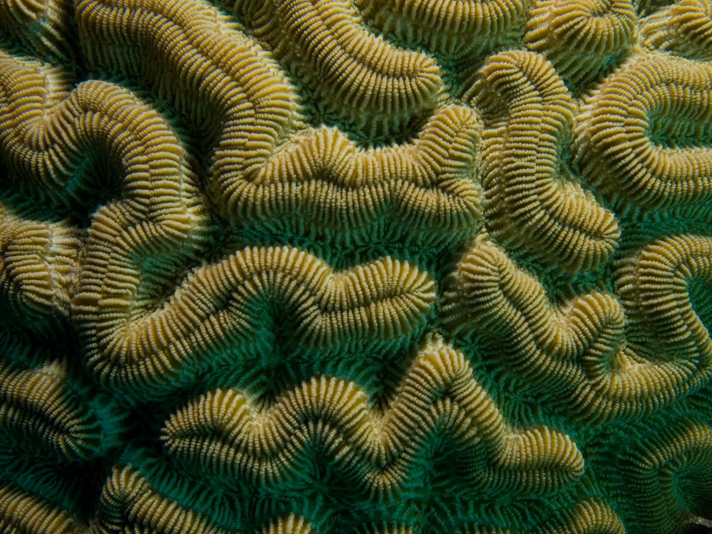 Colpophyllia natans (Boulder Brain Coral) closeup